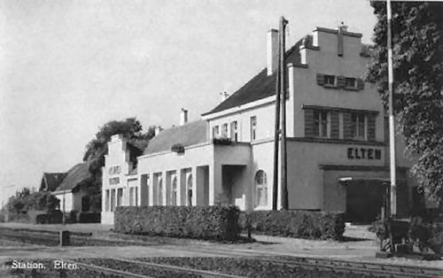 Station Elten (Germany). When this photograph was taken, Elten was part of the Netherlands.